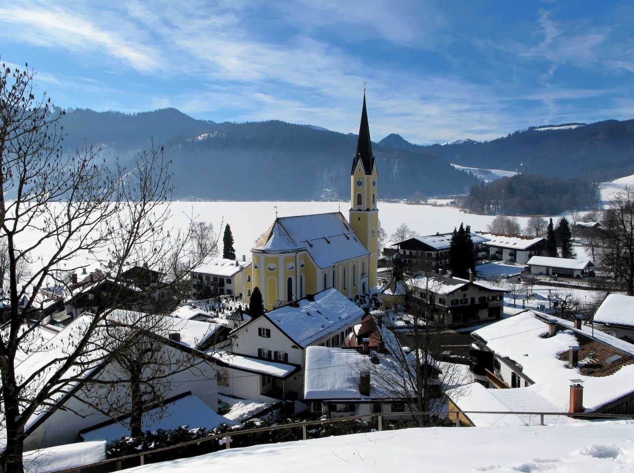 Village Schliersee, Parish Church St.Sixtus